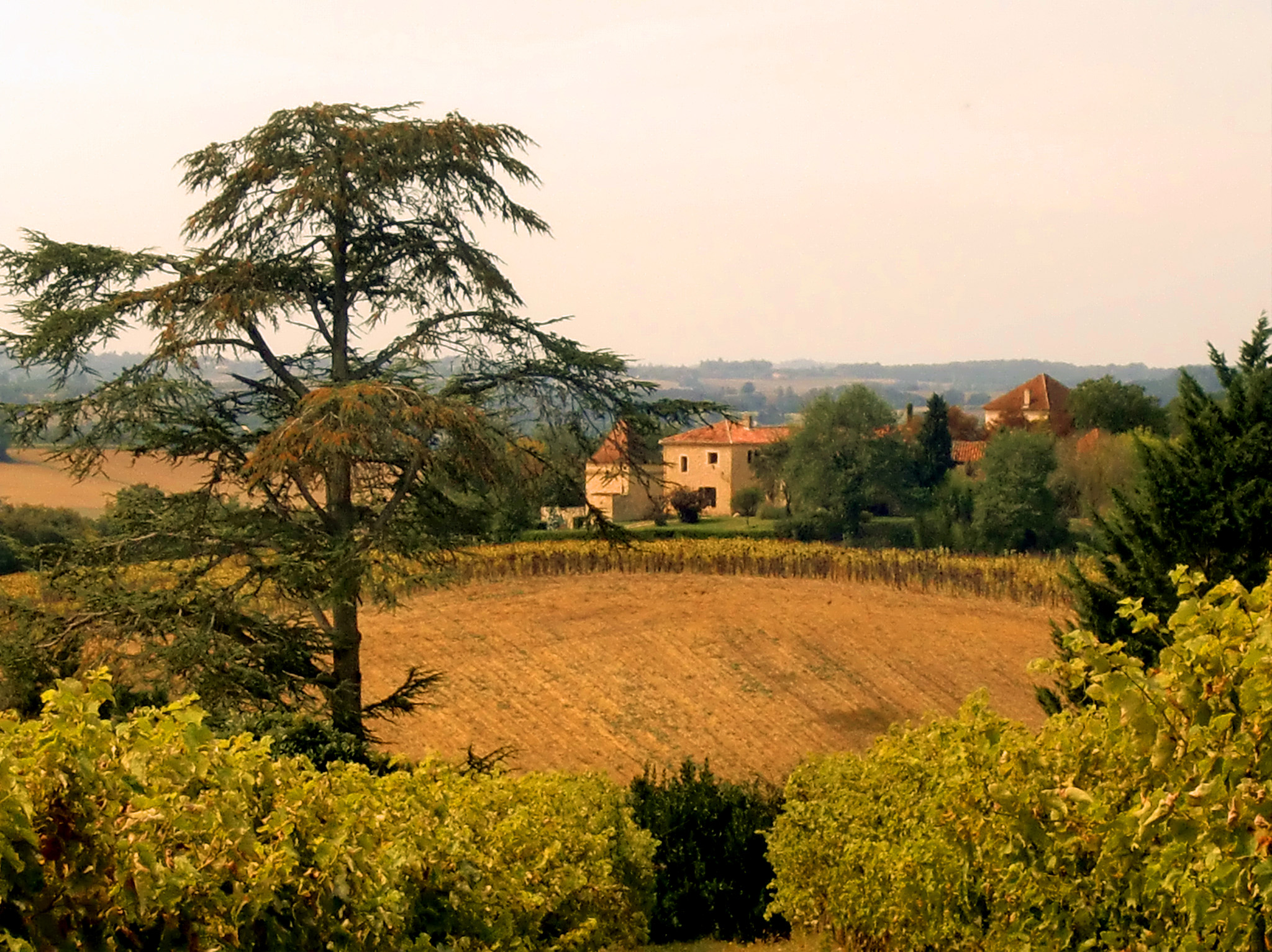 St Jouannet - view from the vineyards